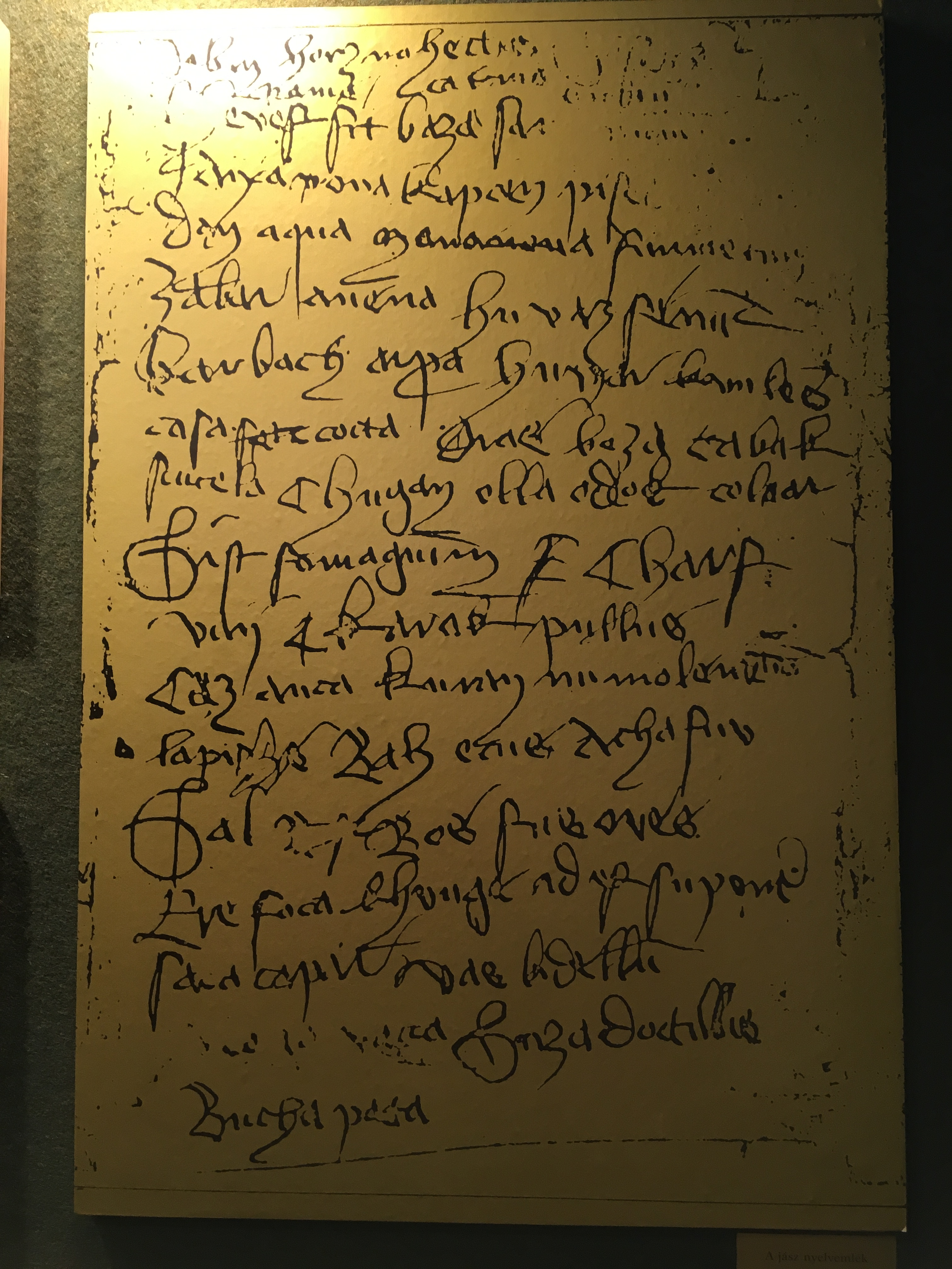 Jász language in Jász Museum (Jászberény)